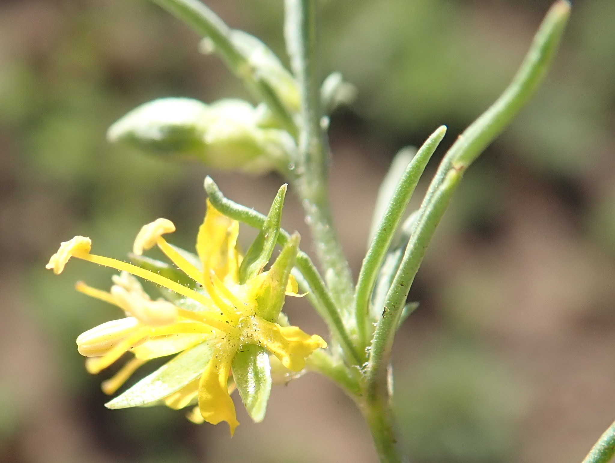 Roderick Hill, Bayswater, Bloemfontein This media file is part of an observation on iNaturalist: tag does not indicate the copyright status of the attached work. A normal copyright tag is still required. See Commons:Licensing.